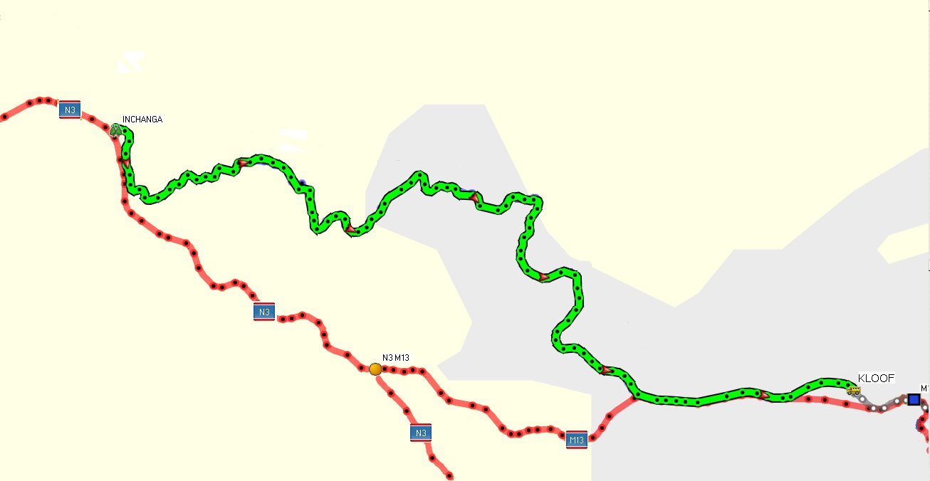 The route (in green) of the Umgeni Steam Railway from Kloof to Inchanga. The route in red is the N3 and M12 freeway.